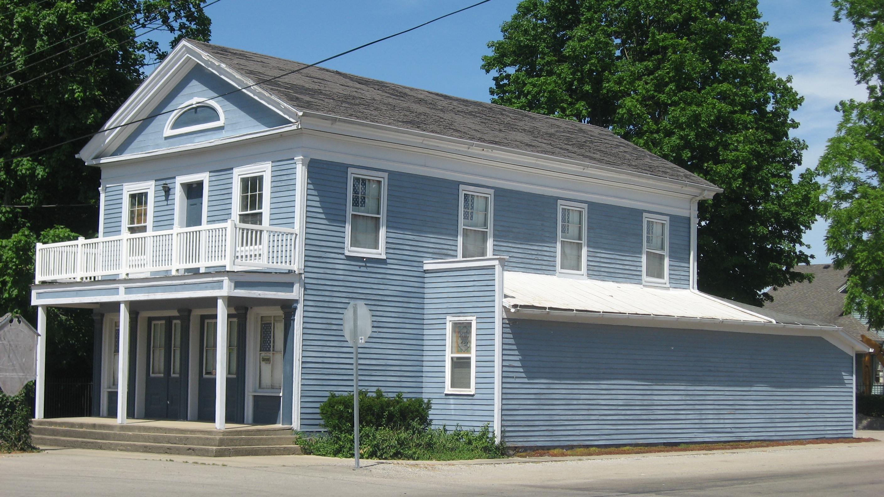 Front and southern side of the John O'Ferrell Store, located on the northeastern corner of the junction of West (State Road 3) and Second Streets in Mongo, Indiana, United States. Built in 1832, it is listed on the National Register of Historic Places.